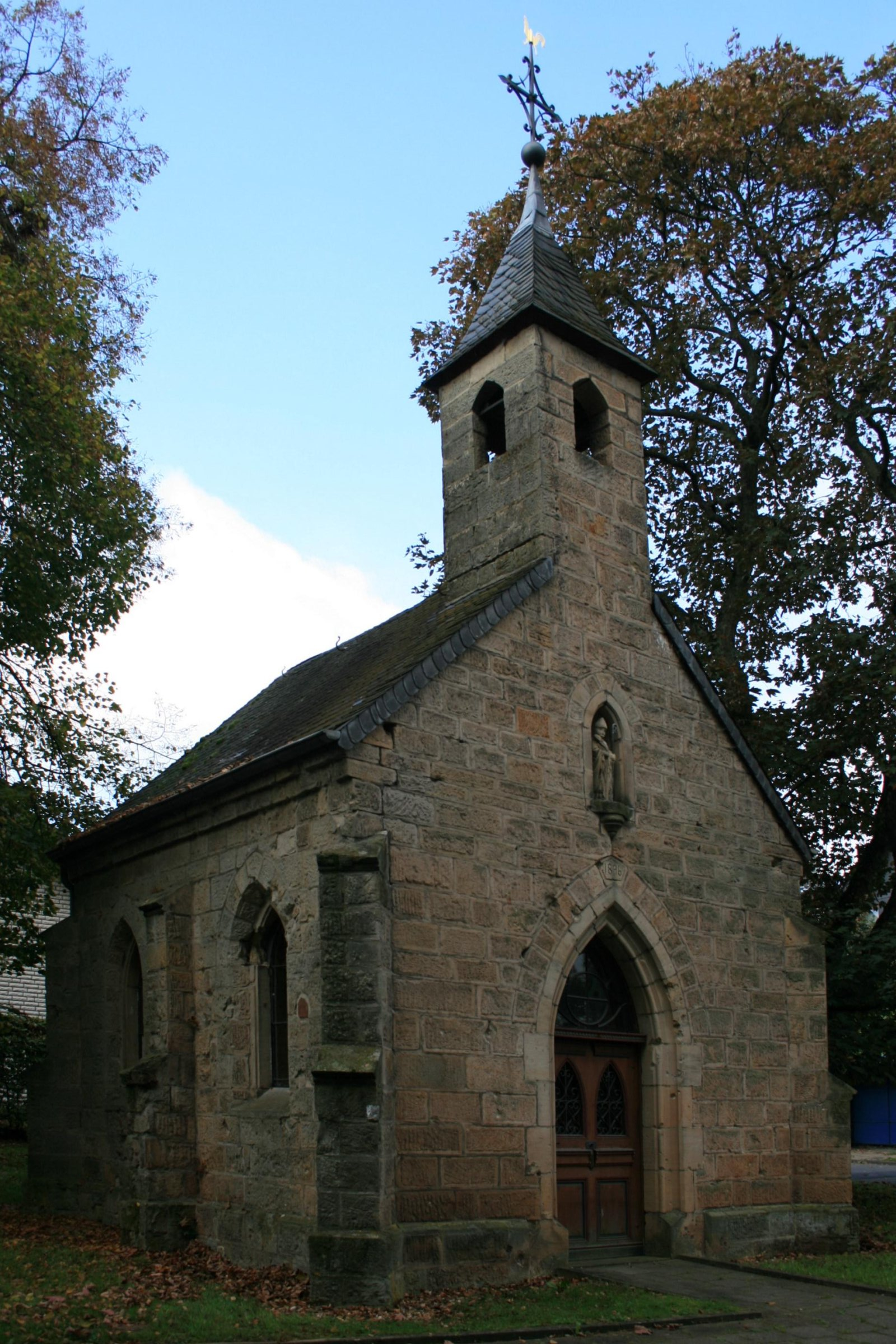 Cultural heritage monument No. 84 in Kreuzau